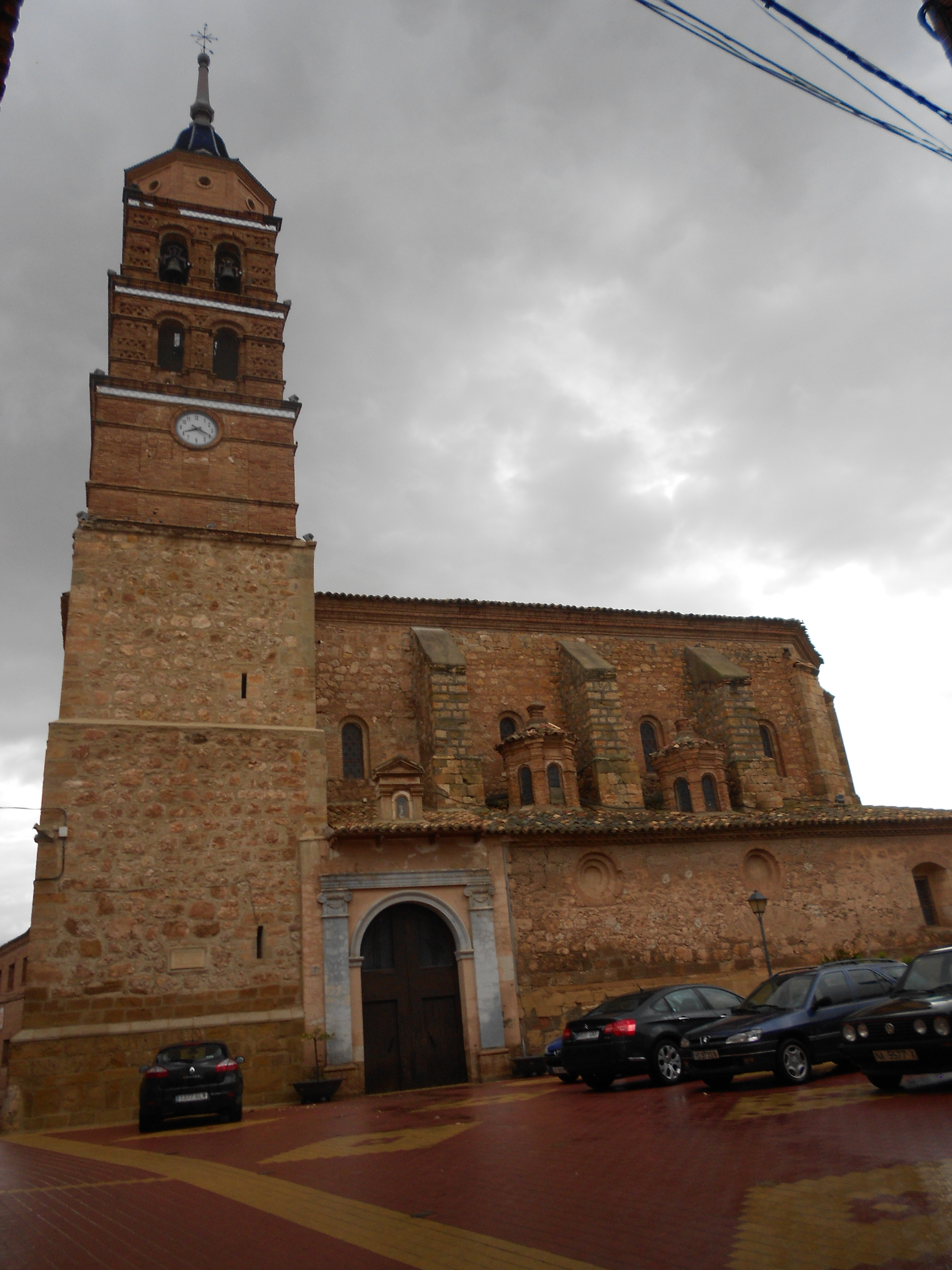 San Juan Bautista's Church (Fuendejalón, Spain)